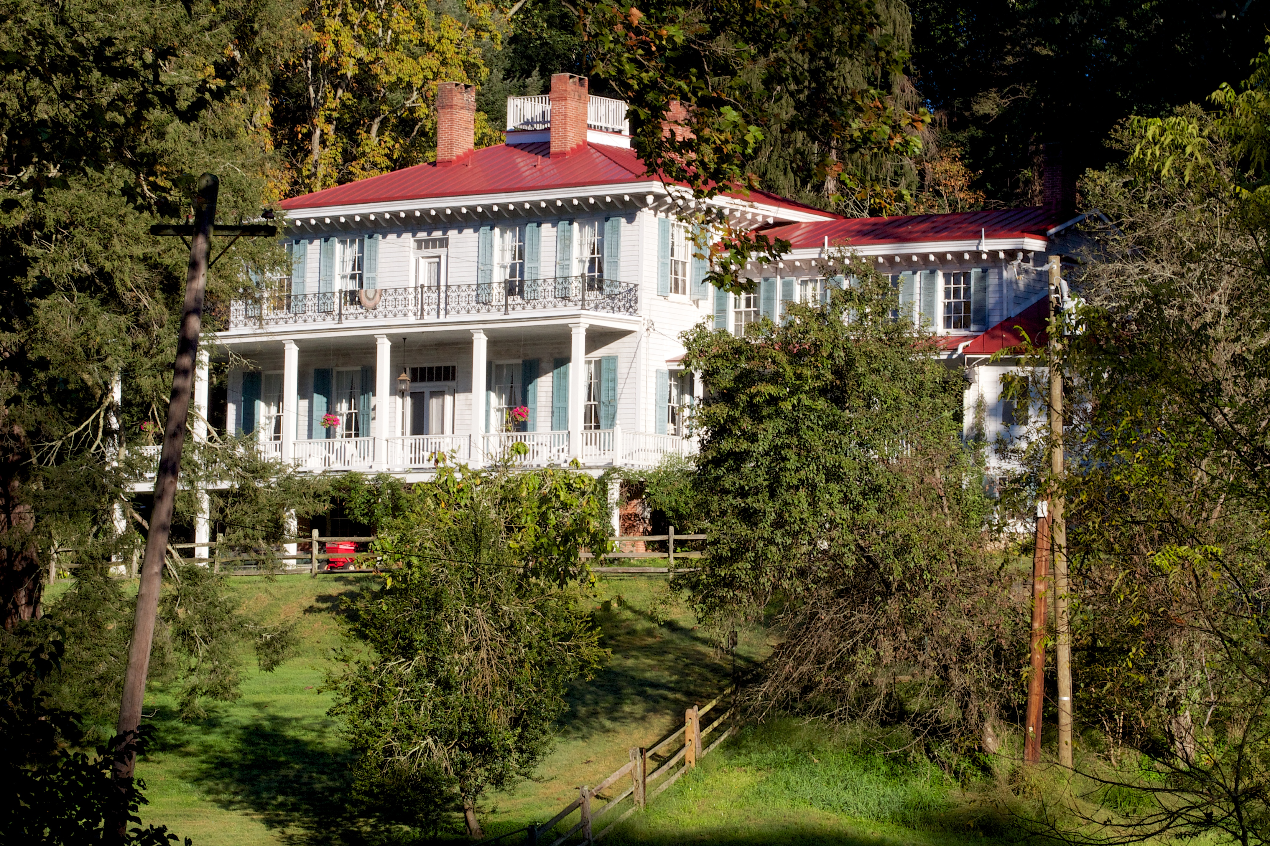 Glencoe